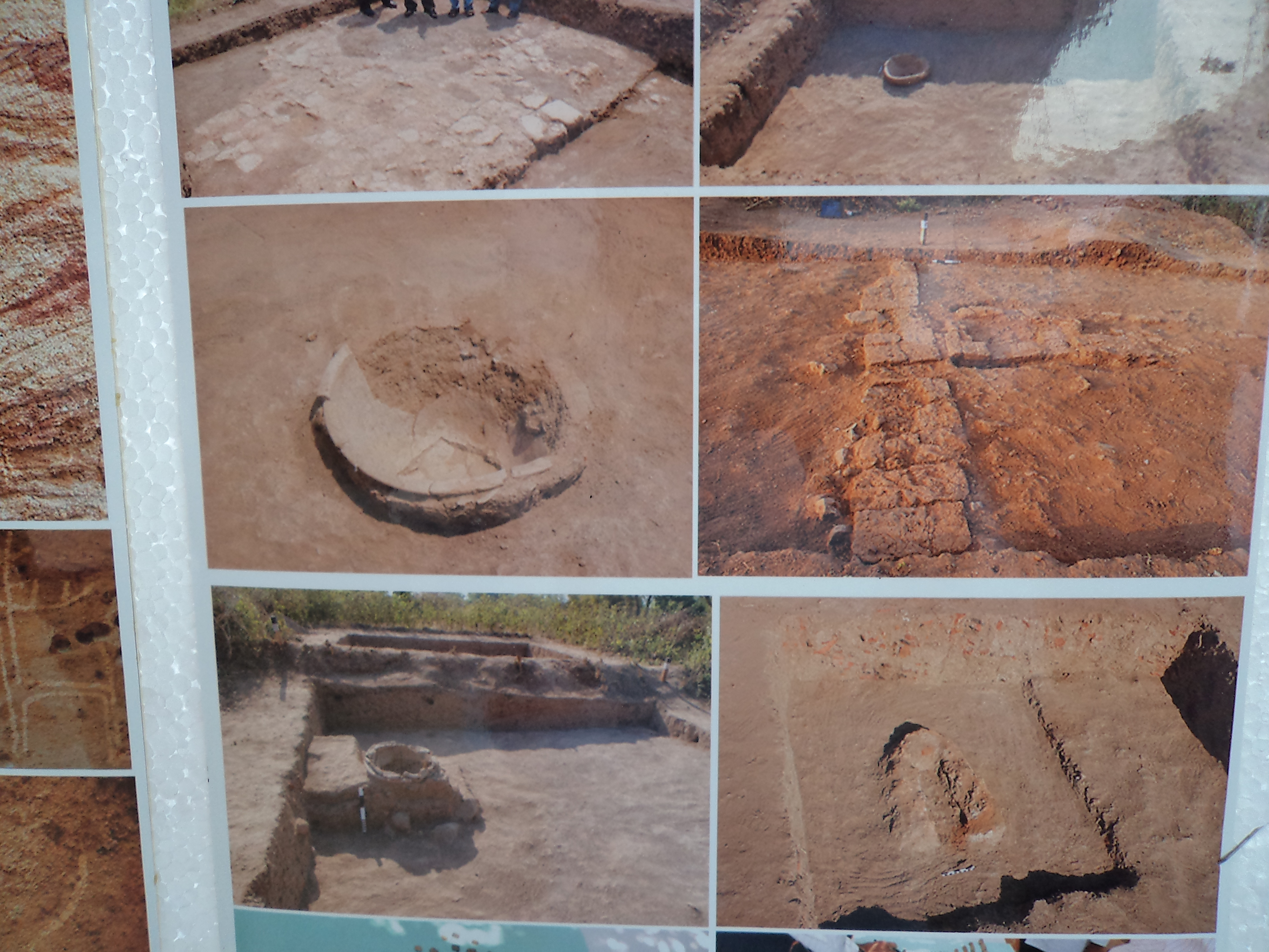 archeological entities, excavations and articles of historic importance from various excavations done in Andhra Pradesh